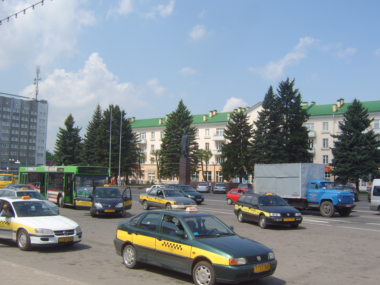 Baranavichy, area of Lenin, Lenin statue